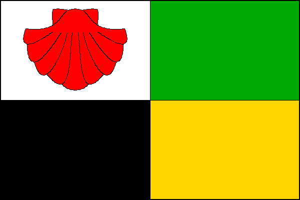 Municipal flag of Tachlovice village, Prague-West District, Czech Republic.